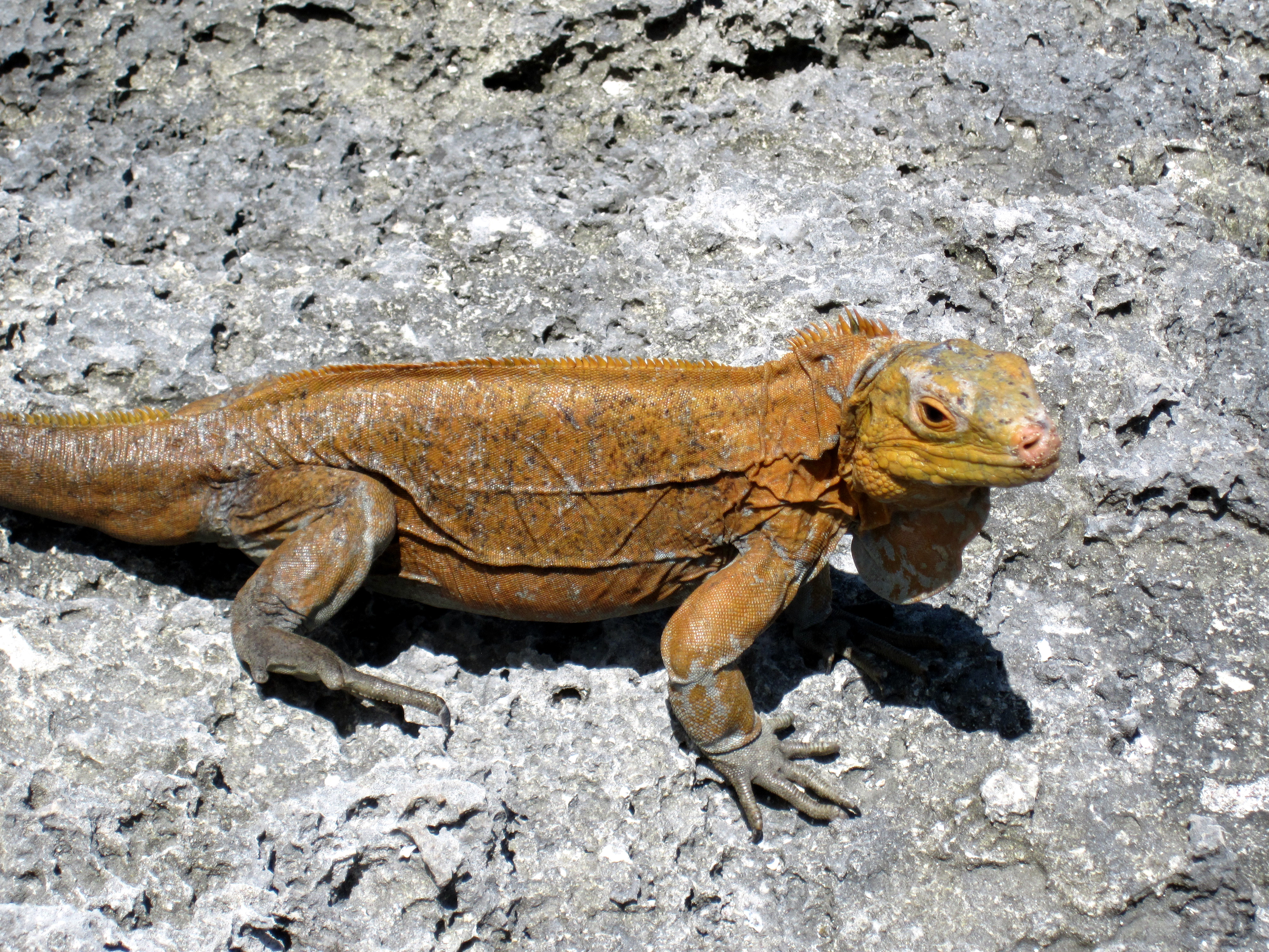 Cyclura rileyi rileyi (Stejneger, 1903) - female San Salvador rock iguana. This lizard is one of the rarest reptiles on Earth. The species is sexually dimorphic: females have smaller body size and small dorsal crests (see above), while males are larger and have more prominent dorsal crests (see elsewhere in this album). Population estimates indicate that only several hundred individuals exist on Earth today. San Salvador rock iguanas are principally herbivores. The rocks are eolian aragonitic calcarenite limestones of Pleistocene age (probably the Owl's Hole Formation, Middle Pleistocene). Classification: Animalia, Vertebrata, Reptilia, Squamata, Iguanidae Locality: Green Cay, western Graham’s Harbour, offshore from northwestern San Salvador Island, eastern Bahamas